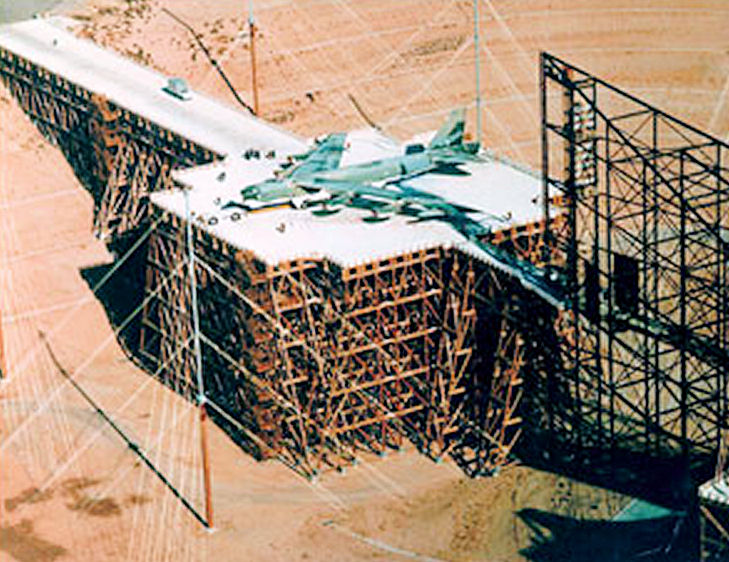 Electro Magnetic Pulse (EMP) simulator with a B-52 Stratofortress during testing